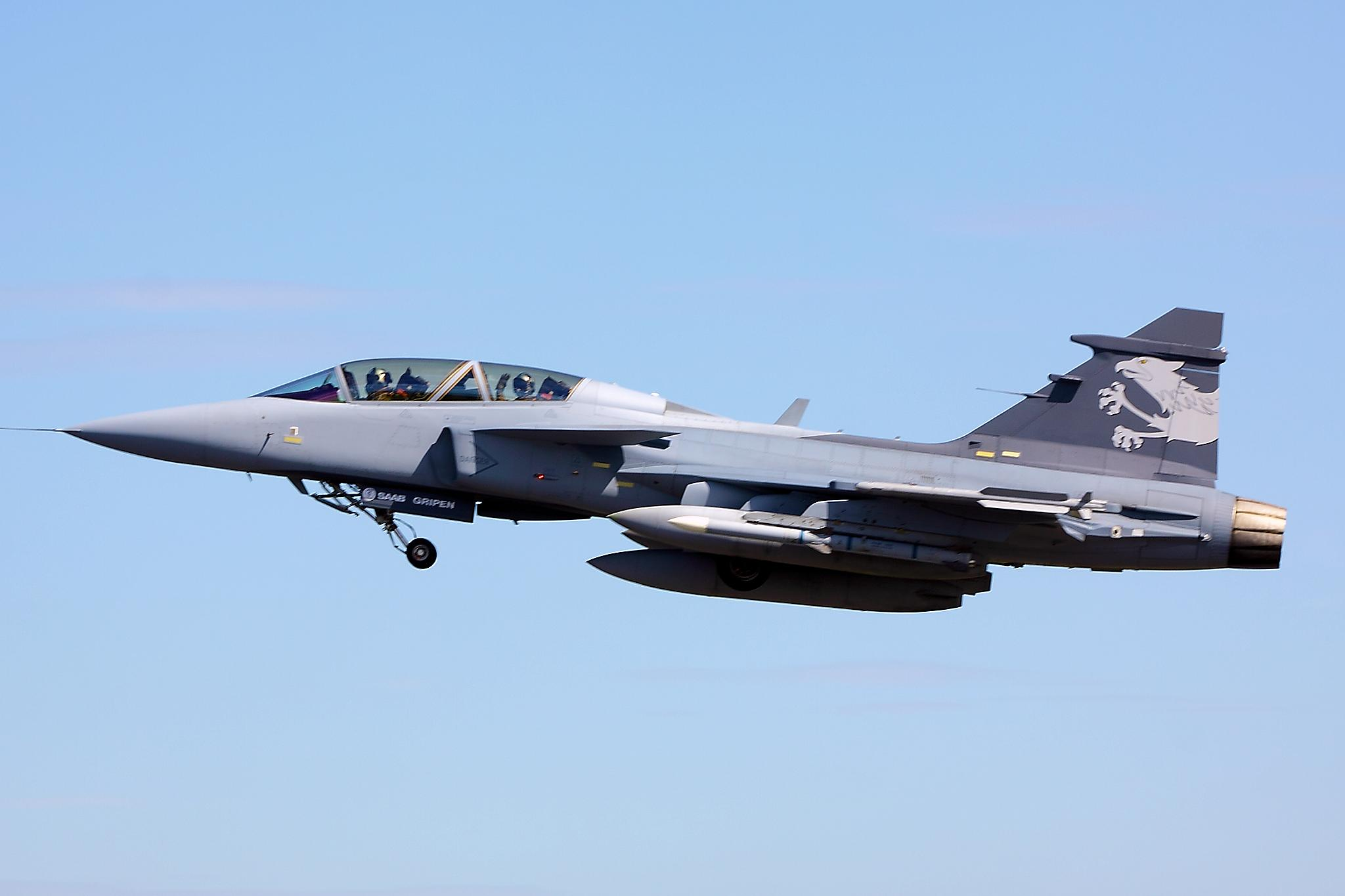 Gripen - RIAT 2010